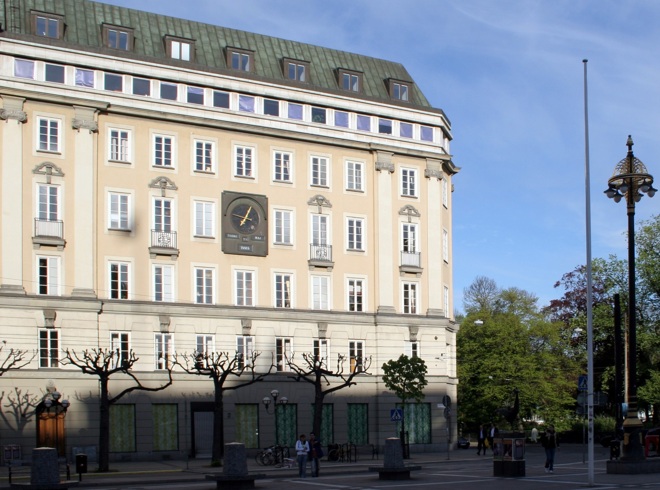 Office building (orig. residential building) Skravelberget Mindre 9/Norrmalmstorg 2. Built in 1884-86, architect O Eriksson, constructor I Hirsch, general contractor Johansson & Hamarlund. 1920; new facade etc (architect T Grut). The building where Kreditbanken was at Norrmalmstorg, Stockholm, Sweden. In Kreditbanken the Norrmalmstorgsdrama took place and the Stockholm syndrome was "created".